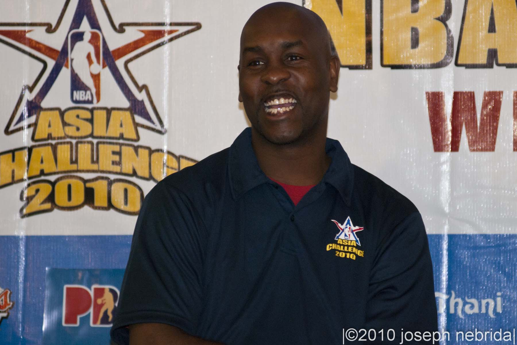 Gary Payton, former professional basketball player